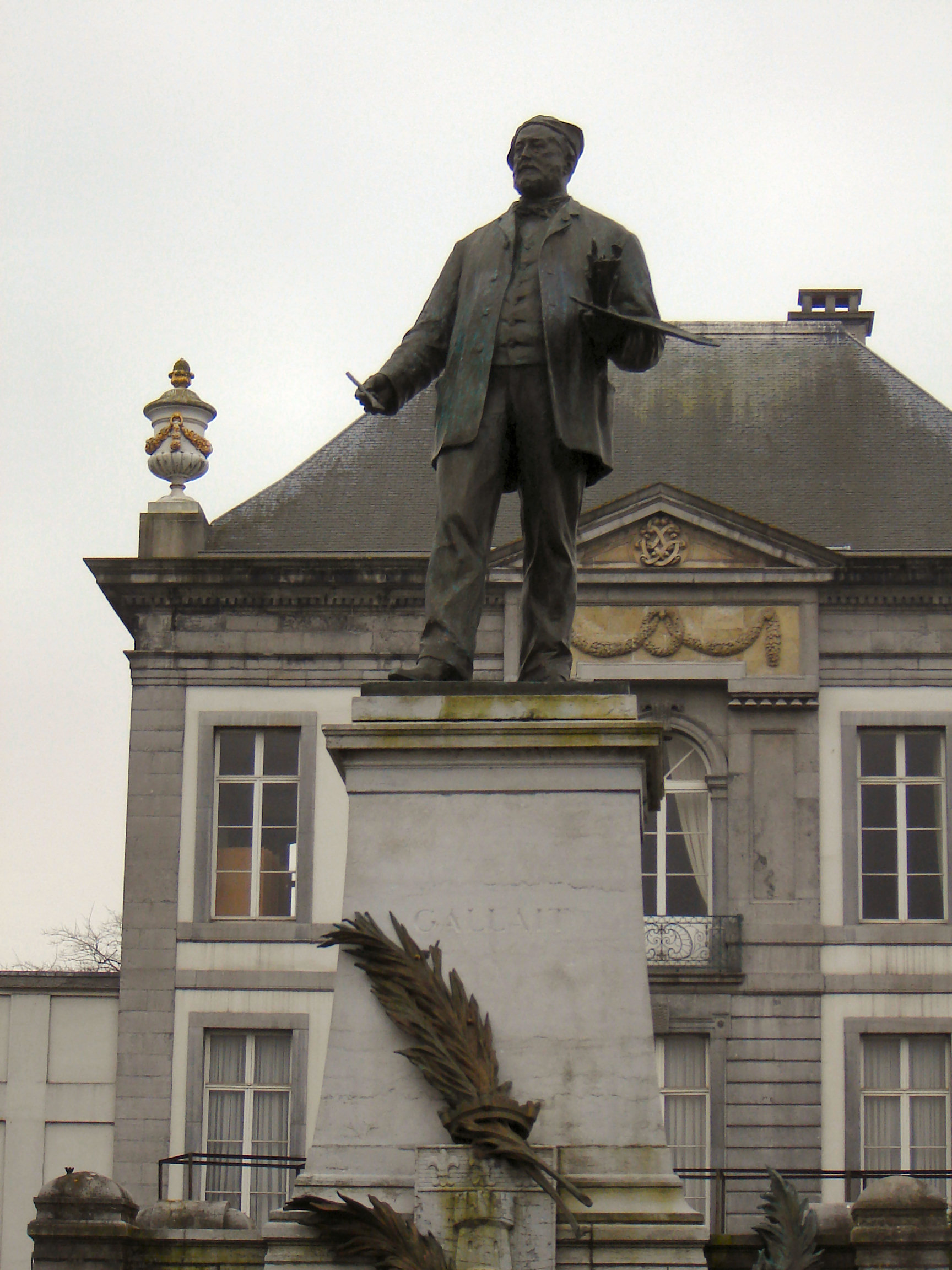 Statue of Louis Gallait, created by Guillaume Charlier (1896) in city park in Tournai, Hainaut, Belgium.